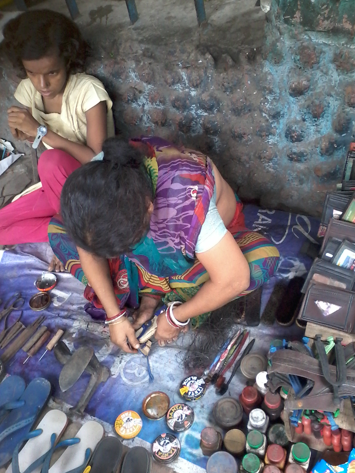 Woman in Service